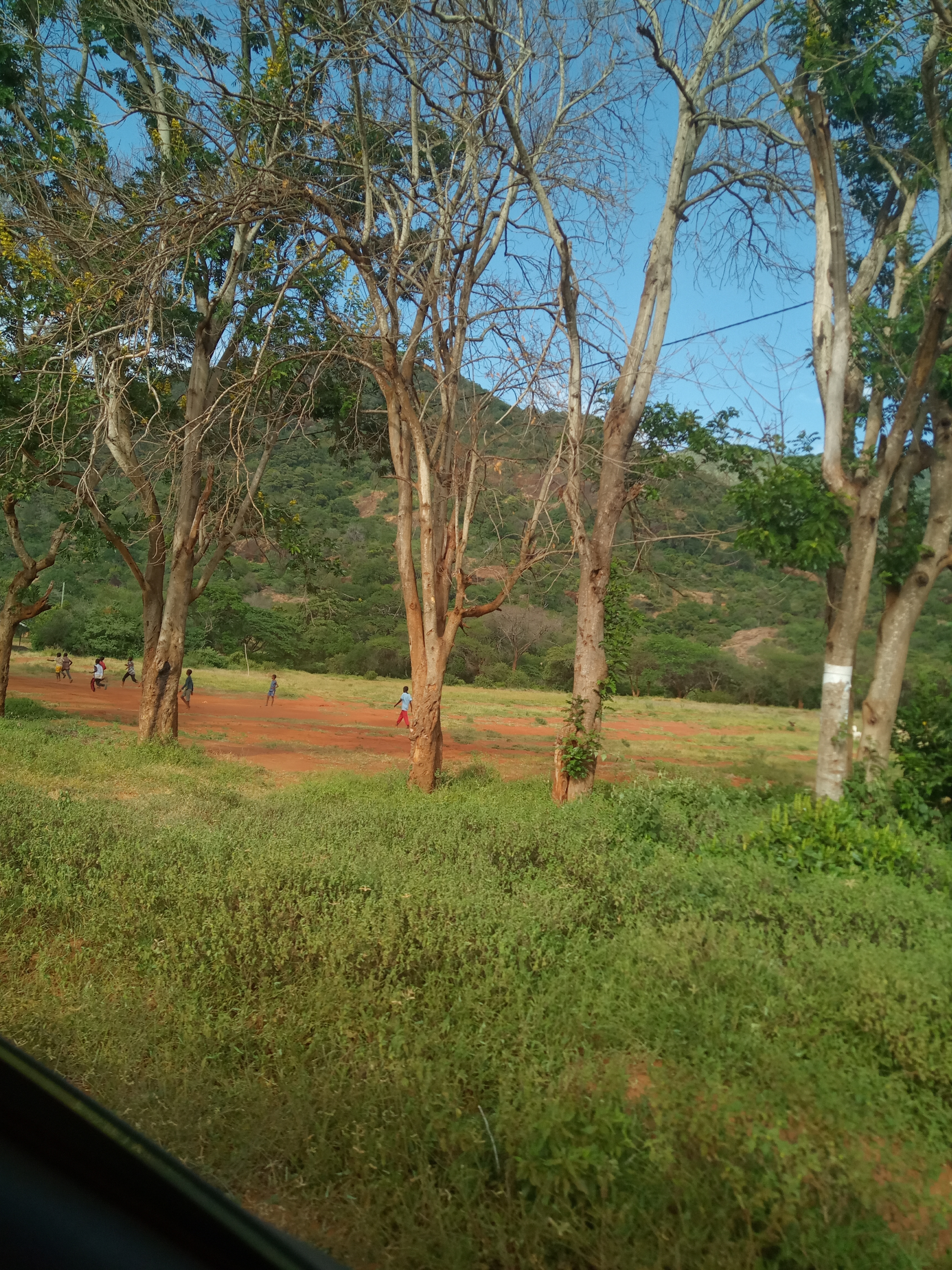 This is an image with the theme "Play" from: Kenya